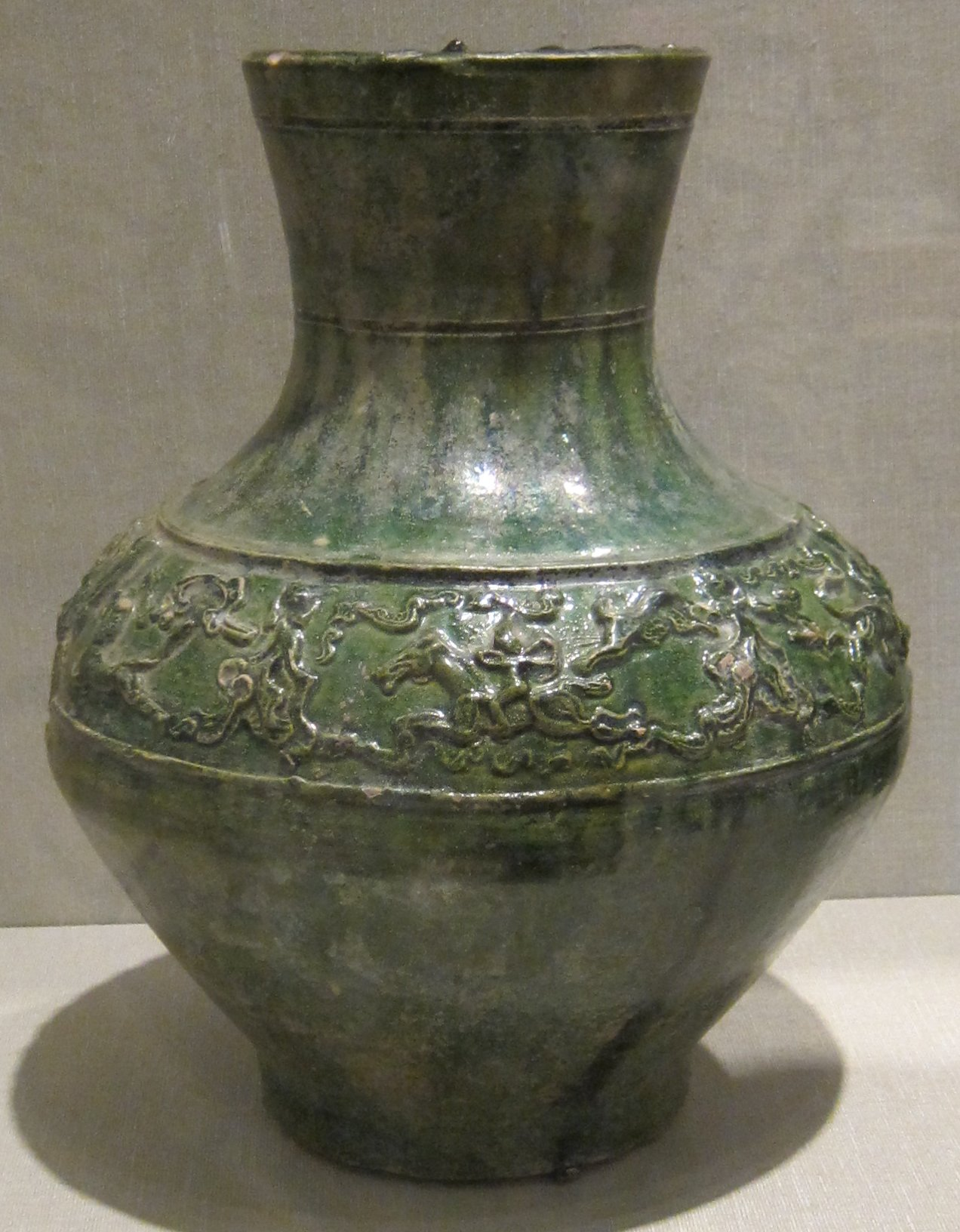 Chinese vessel (hu), Han dynasty, earthenware with glaze, Honolulu Museum of Art, accession 5851.1